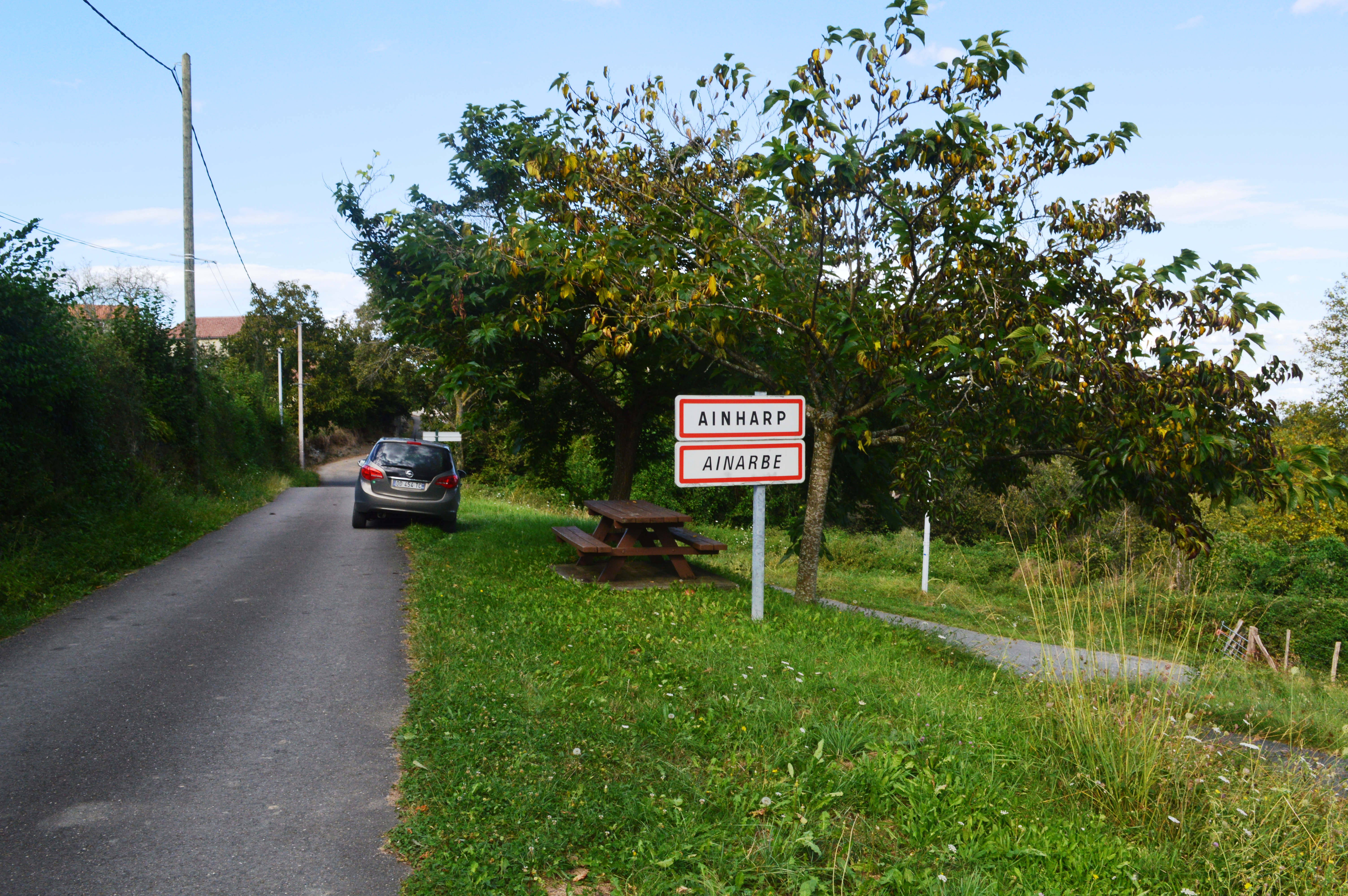 The Entry to Ainharp